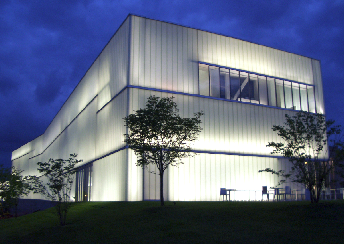 Nelson-Atkins Museum of Art, Kansas City, Missouri